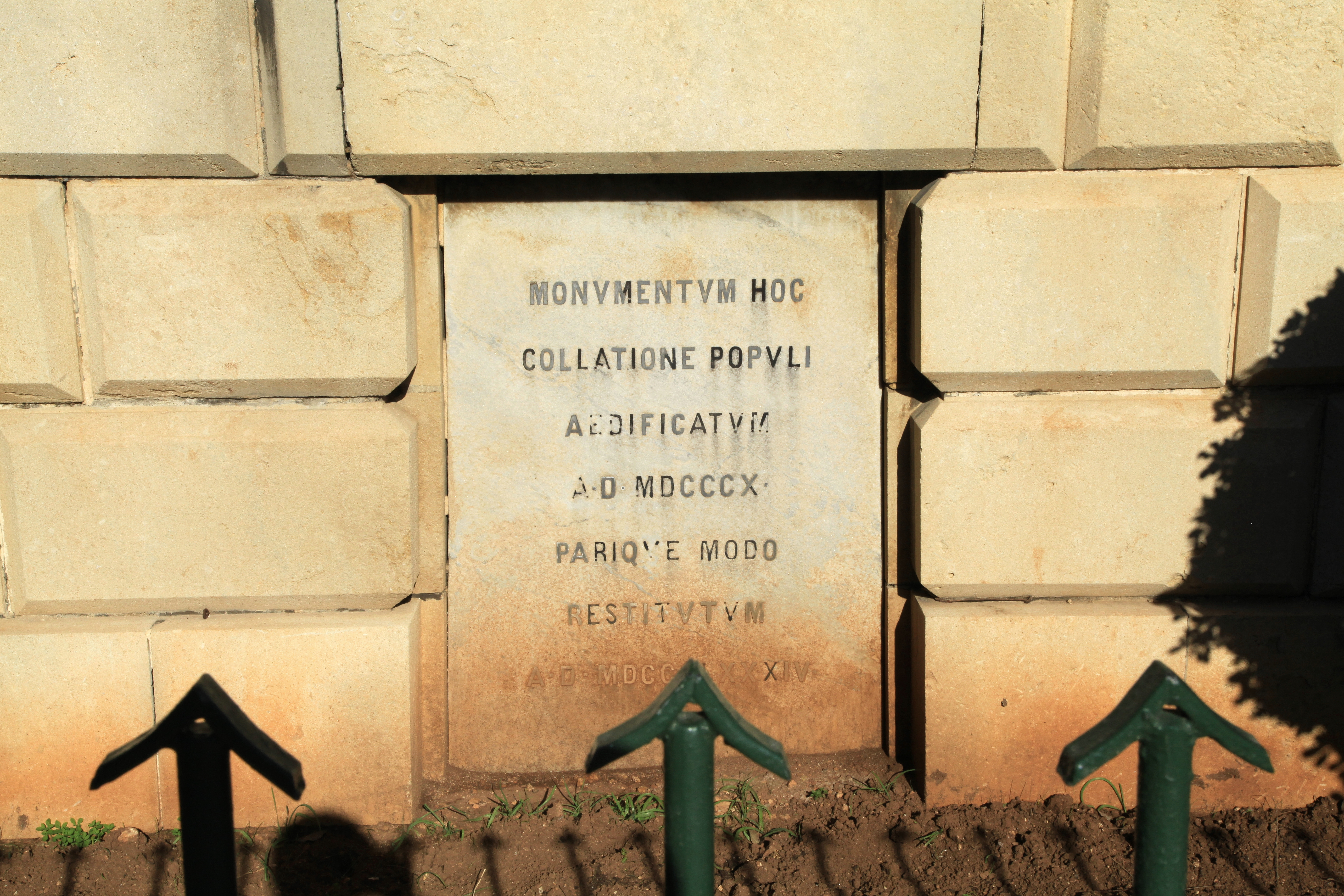 Monument to Alexander Ball, Lower Barrakka Gardens, Triq il-Lvant in Valletta, Malta